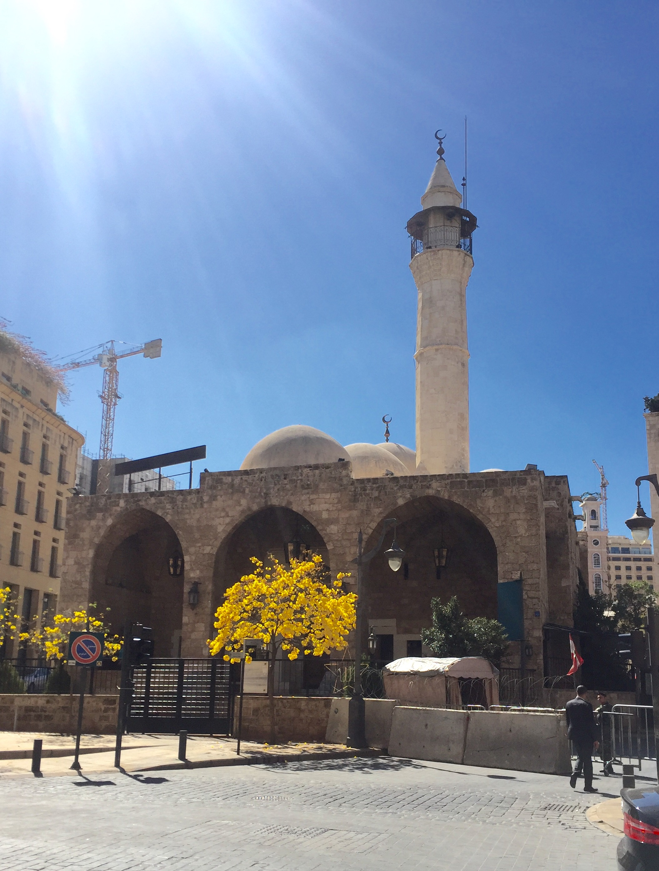 Emir Assaf Mosque, late winter 2016. The mosque was built in the 16th century by Emir Mansour Assaf.